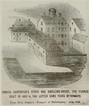 Samuel Carpenter's store and dwelling-house, the former built in 1683-4, the latter some years afterward. From Peter Cooper's "Prospect of Philadelphia," circa 1718.